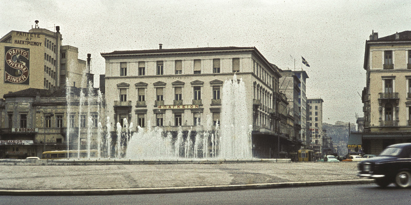 Athens